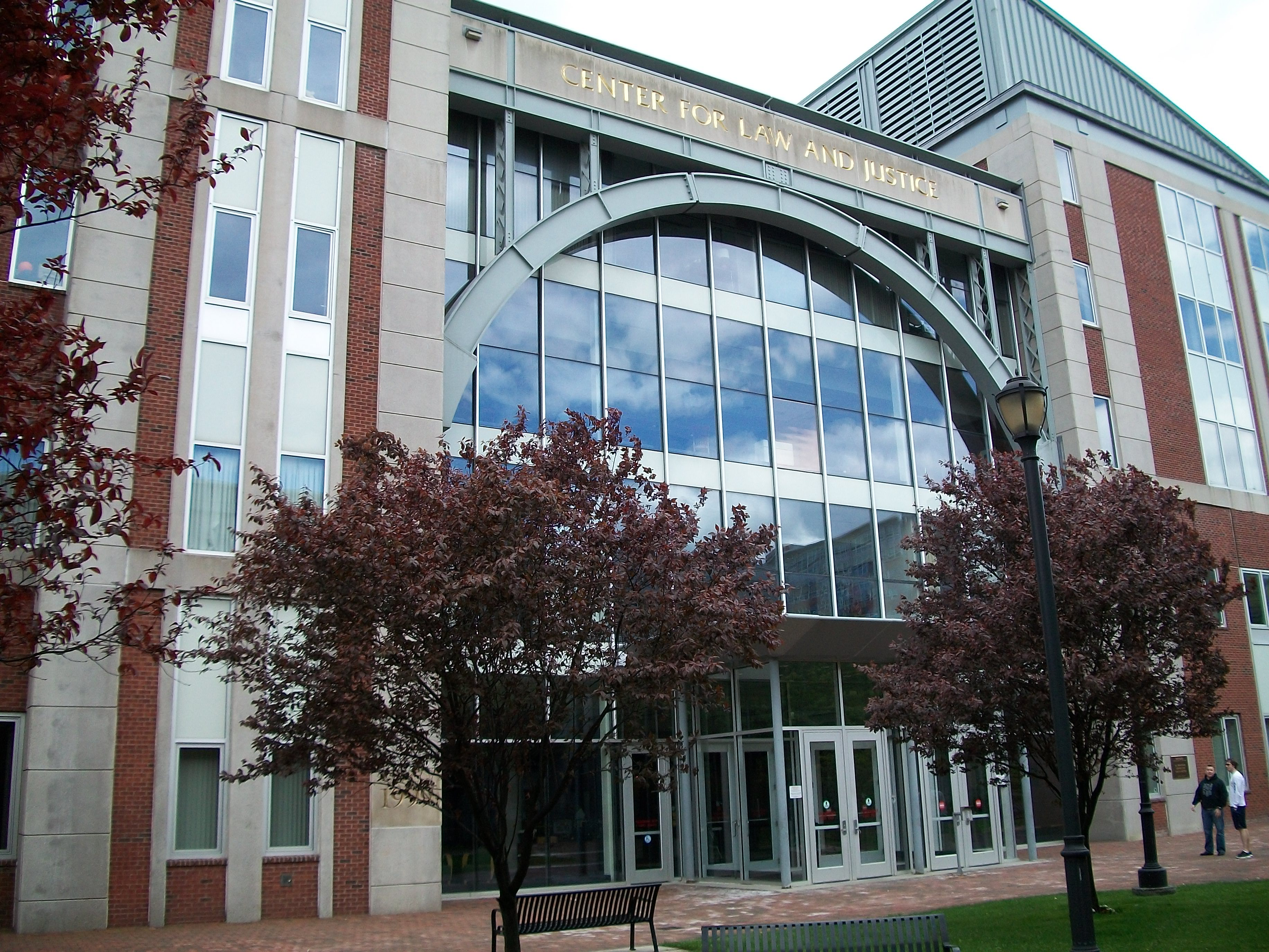 Rutgers Law and Justice Center